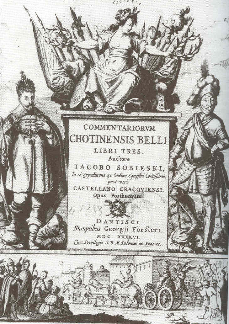 via "Jakub Sobieski, Commentariorum Chotinensis belli libri tres, Gdańsk 1646"